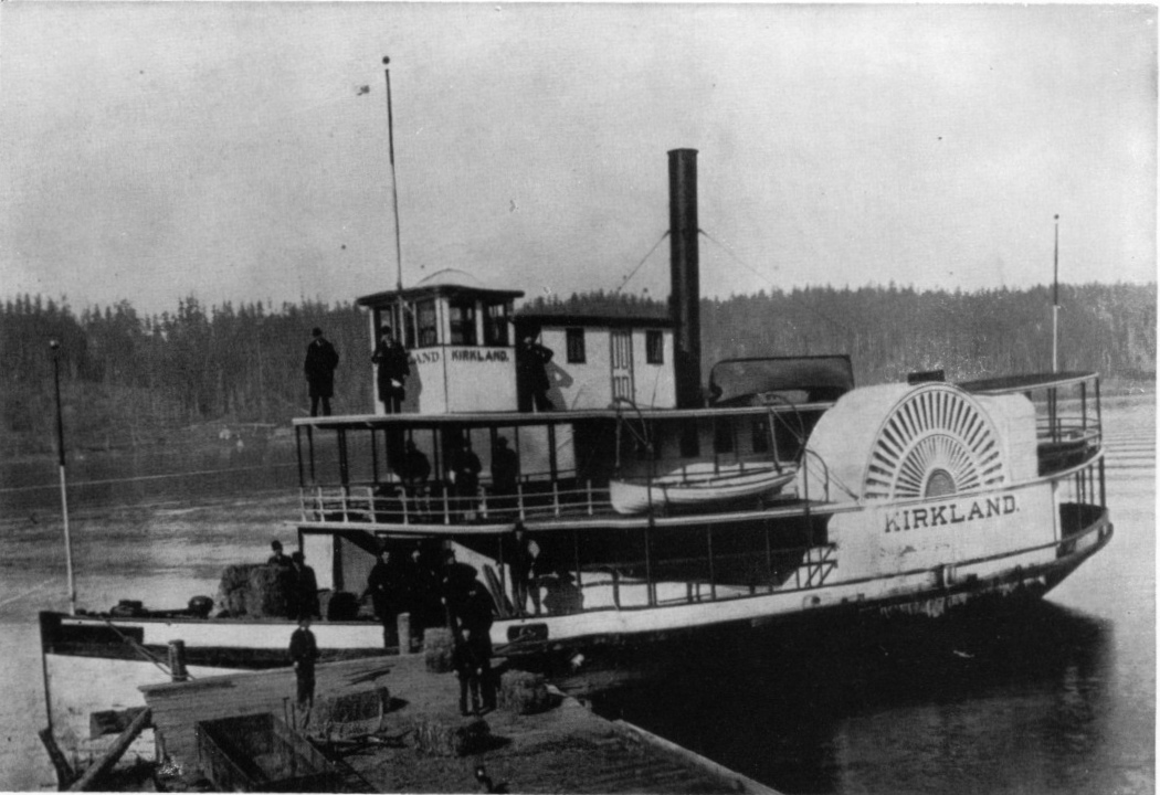 Kirkland, sidewheel steamboat, ran on Lake Washington from 1888 to 1910.